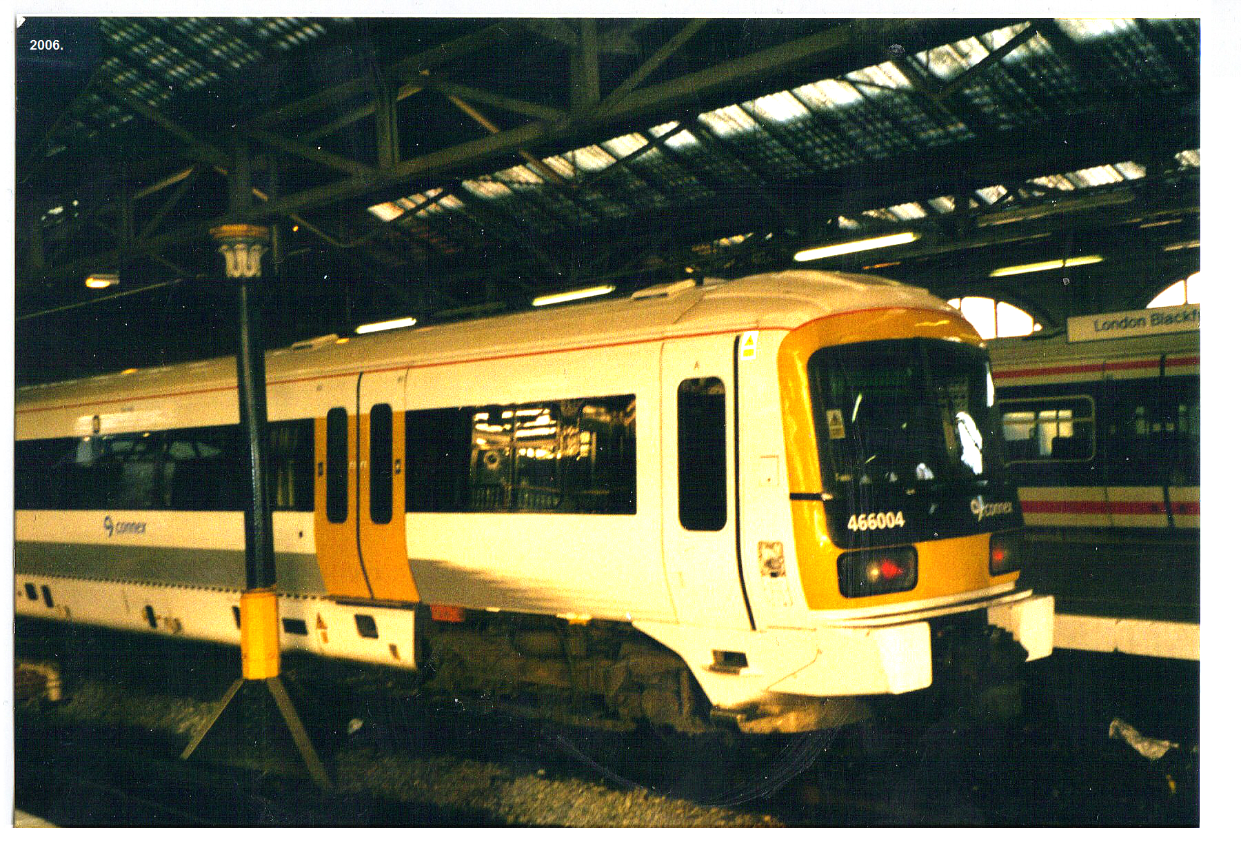 I took the picture of this Connex Class 466 EMU my self at Blackfriars station in the year 2006.